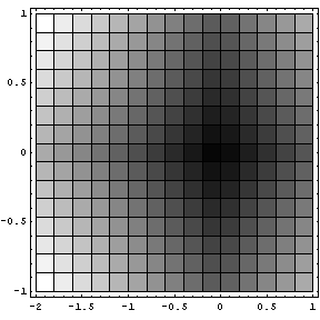 Made by Richard Giuly. Mathematica code used to generate this plot: DensityPlot[Abs[x] + Abs[y], {x, -2, 1}, {y, -1, 1}]